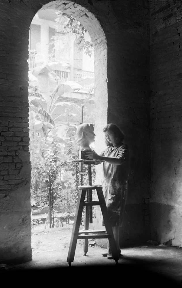 Photograph of sculptor Challis Walker Calandria of New Orleans, Louisiana